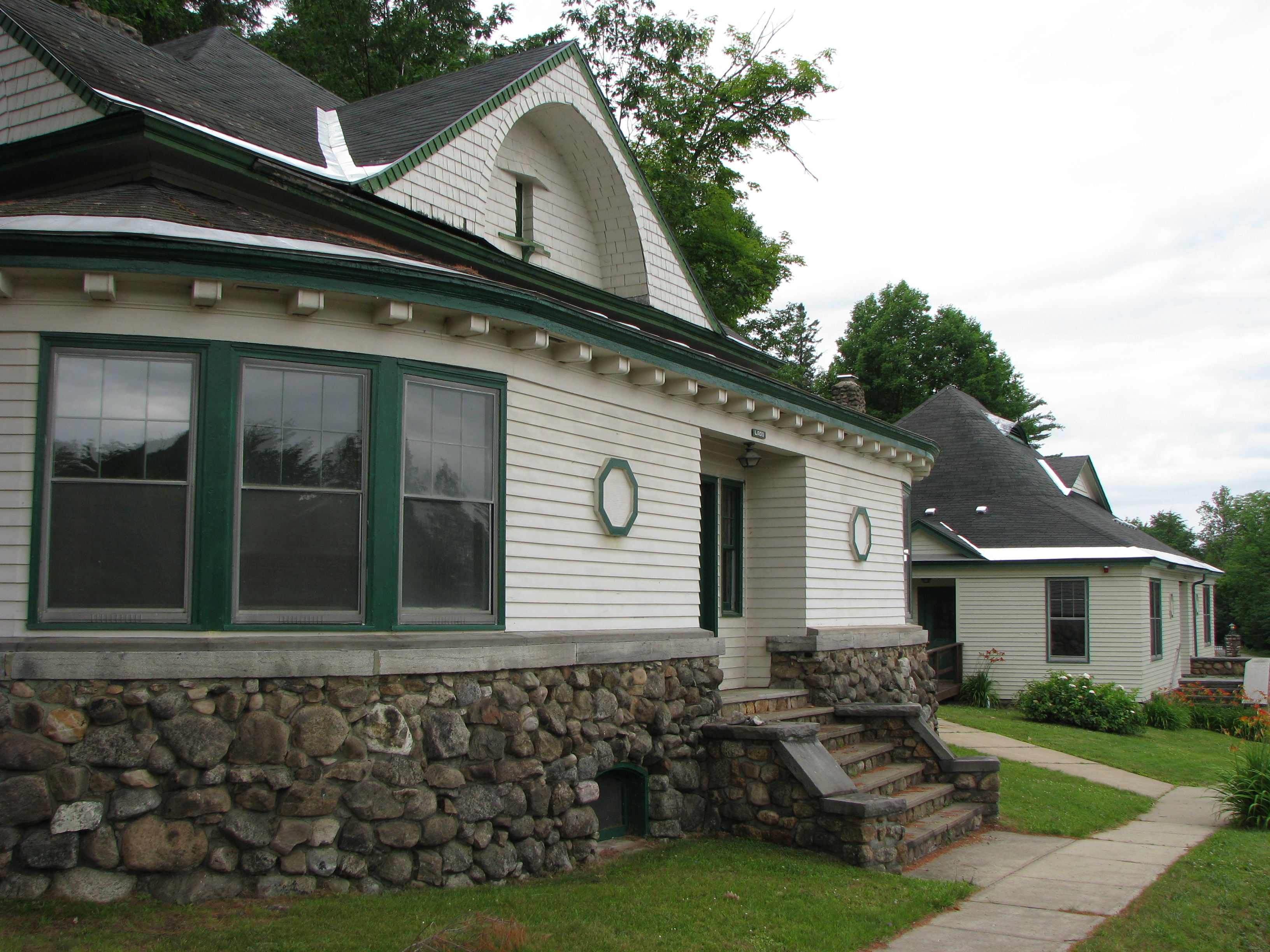 Two of the original six Cure Cottages of the Adirondack Cottage Sanitarium, Saranac Lake, NY.